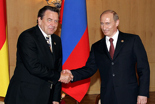 PRESIDENT HOTEL, MOSCOW. With German Federal Chancellor Gerhard Schroeder.